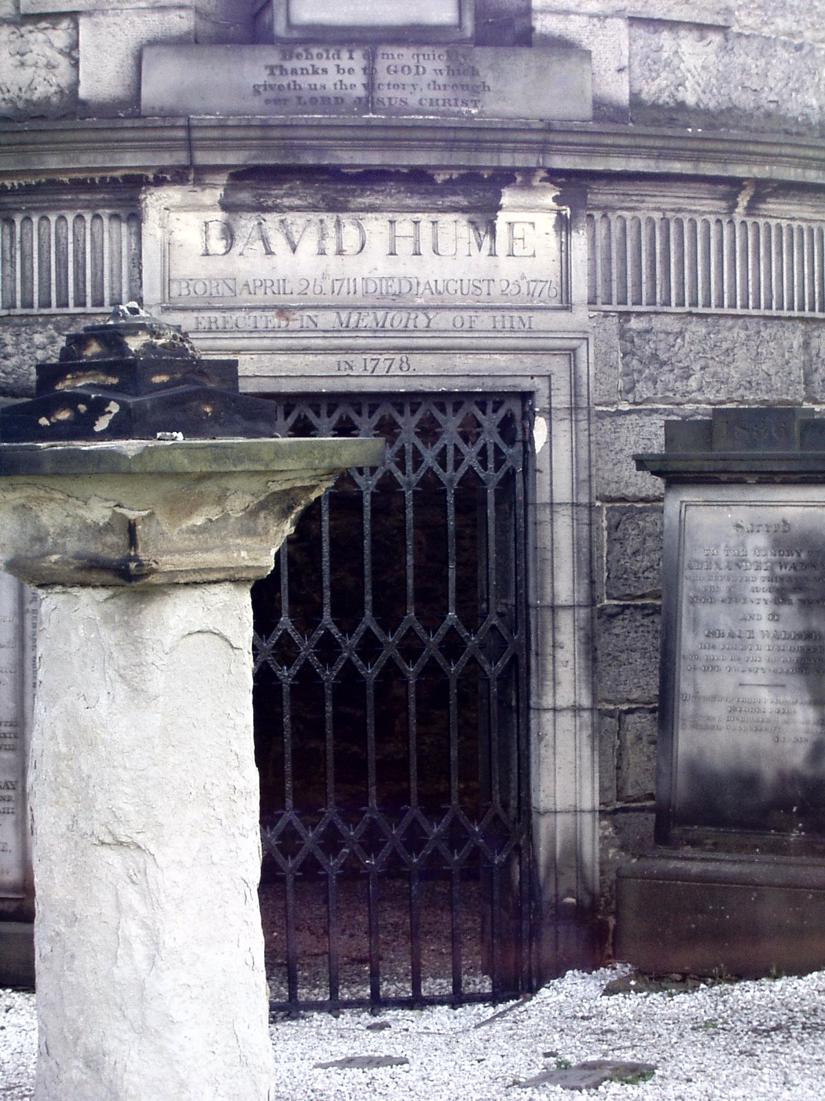 Tomb of David Hume on Calton Hill, Edinburgh, Scotland.